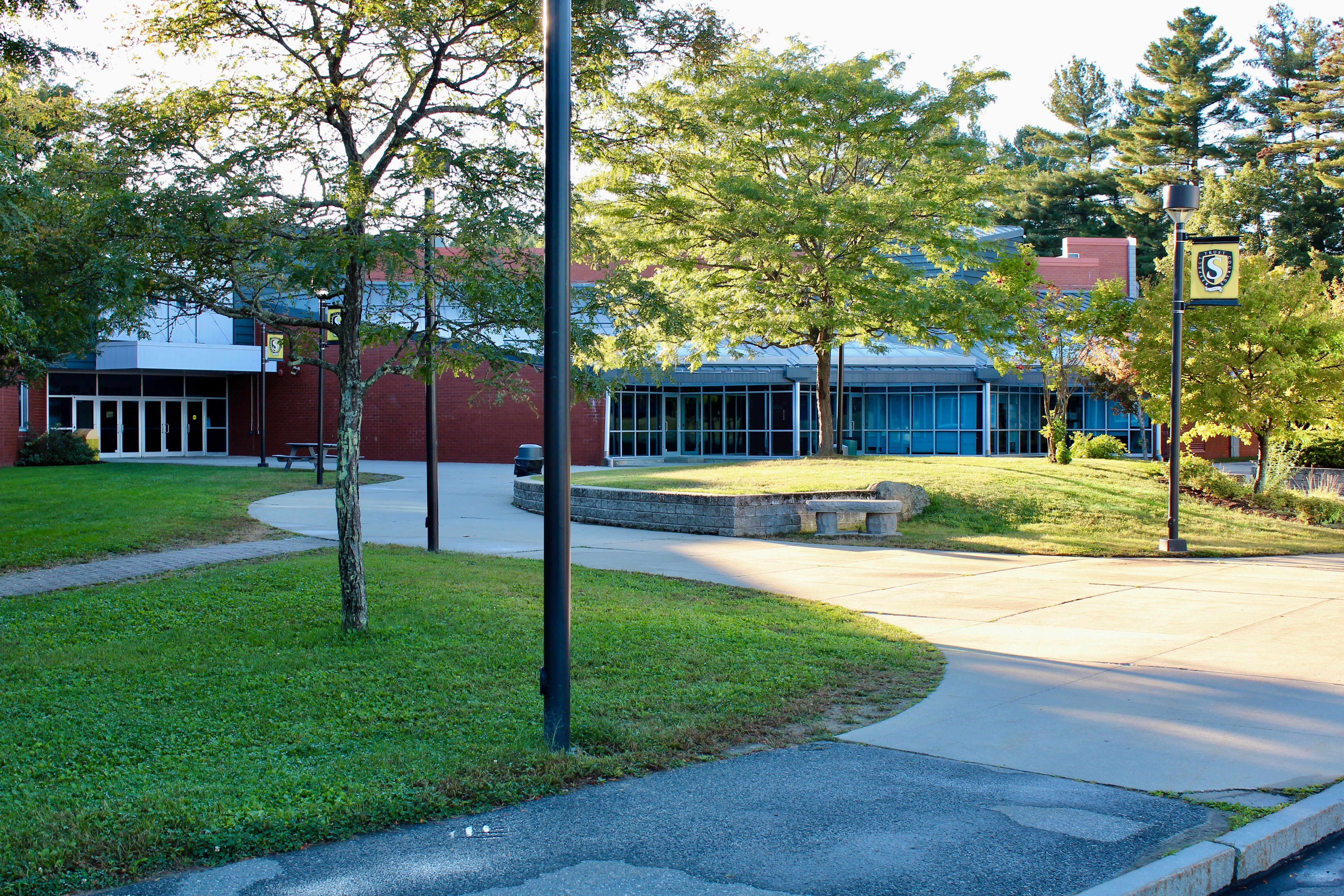 Souhegan Courtyard